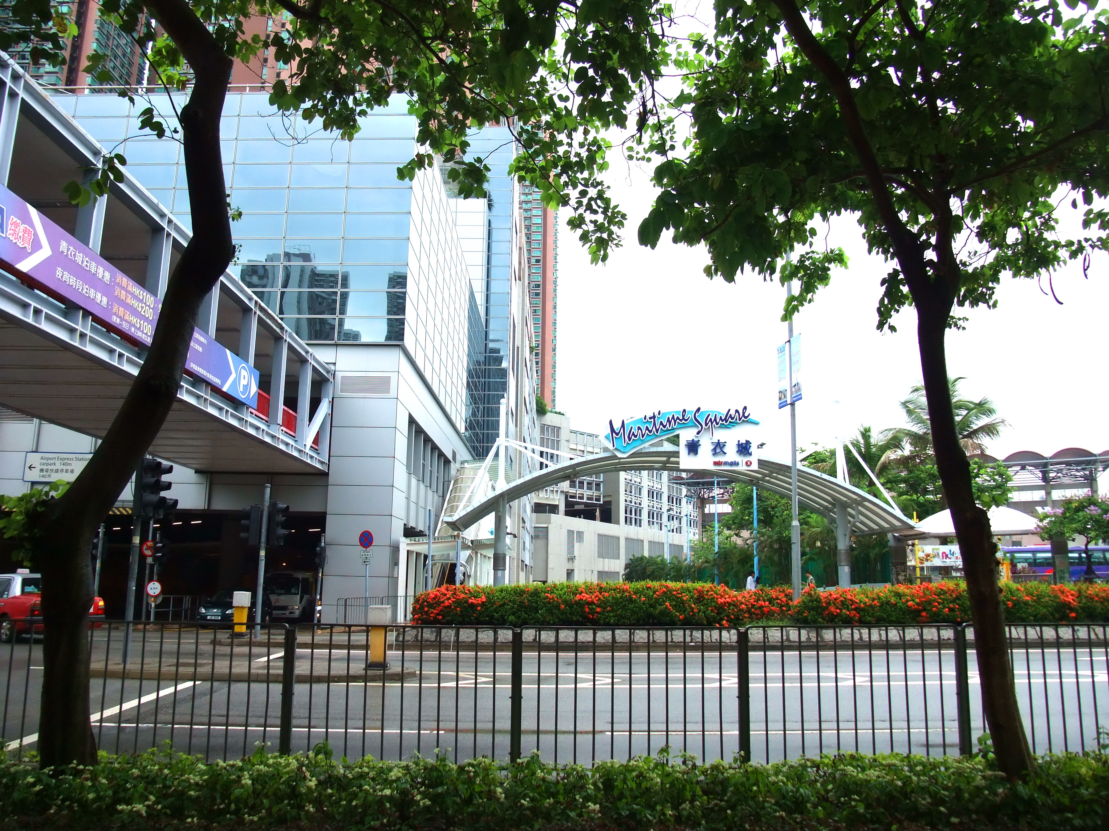 Maritime Square (Tsing King Road entrance), Hong Kong.